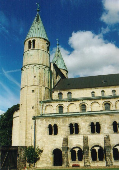 Church St. Cyriakus in Gernrode (Germany)